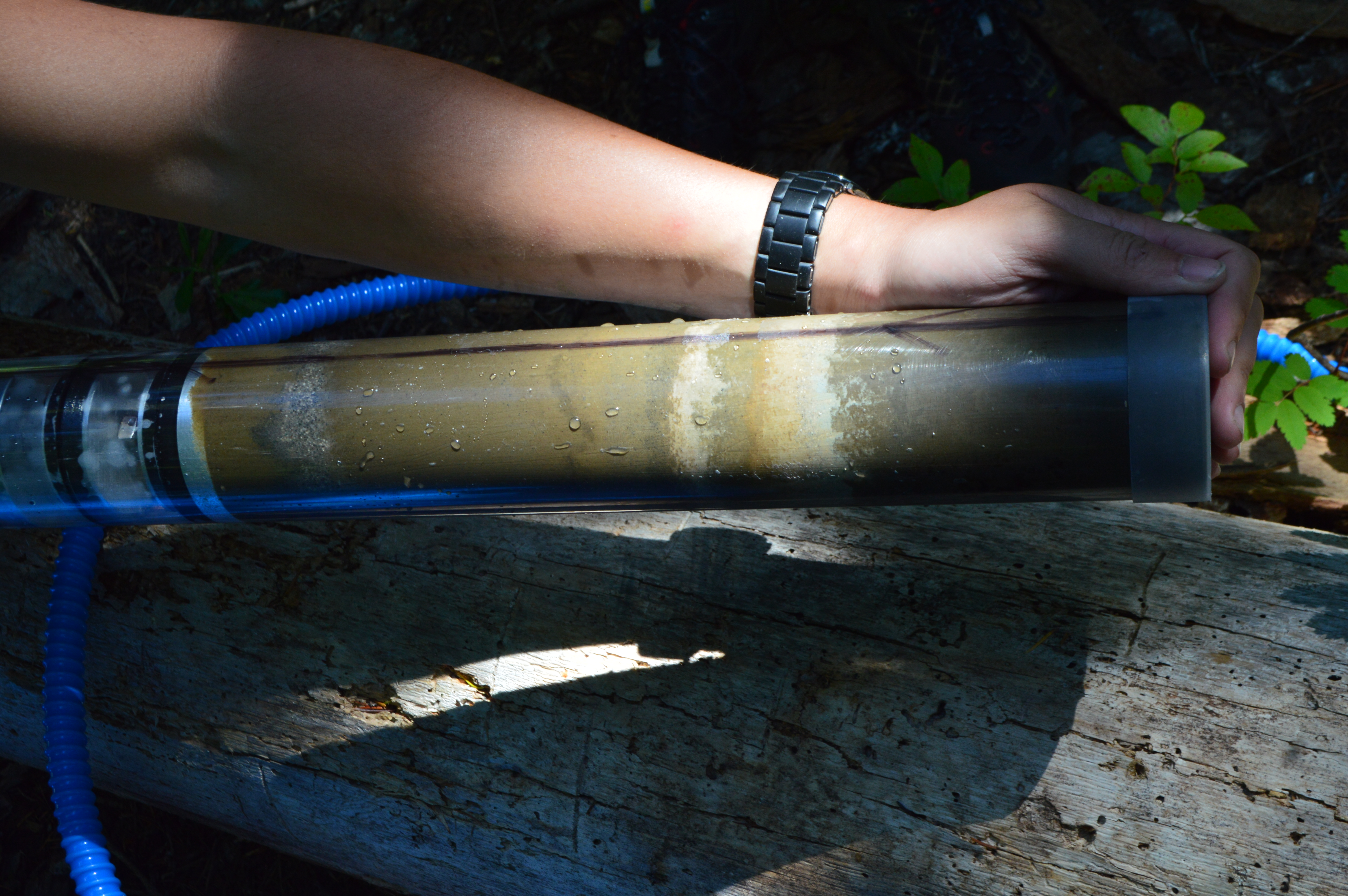 Lake sediment core. Forlorn Lakes. Gifford Pinchot National Forest, Washington. Photo by: Molly McKnight Date: July 23, 2016 Credit: USDA Forest Service, Region 6, State and Private Forestry, Forest Health Protection. Source: Aerial Survey Program collection. Project description from: Detecting forest insect and disease outbreaks within the palaeoecological record Goal: The principle aim of the project is to calibrate insect outbreaks, notably Dendroctonus, within the pollen and macrofossil record obtained from lake sediments across Oregon and Washington State, U.S.A, utilising the novel approach of environmental DNA (eDNA) to identify beetle presence. Methods: Geographic Information Systems, Palynology, Tephra, Dendrochronology, Ancient DNA, Pollen, Environmental DNA, Palaeoecology Date: 30 June 2016 - 30 June 2019 Image provided by USDA Forest Service, Region 6, State and Private Forestry, Forest Health Protection